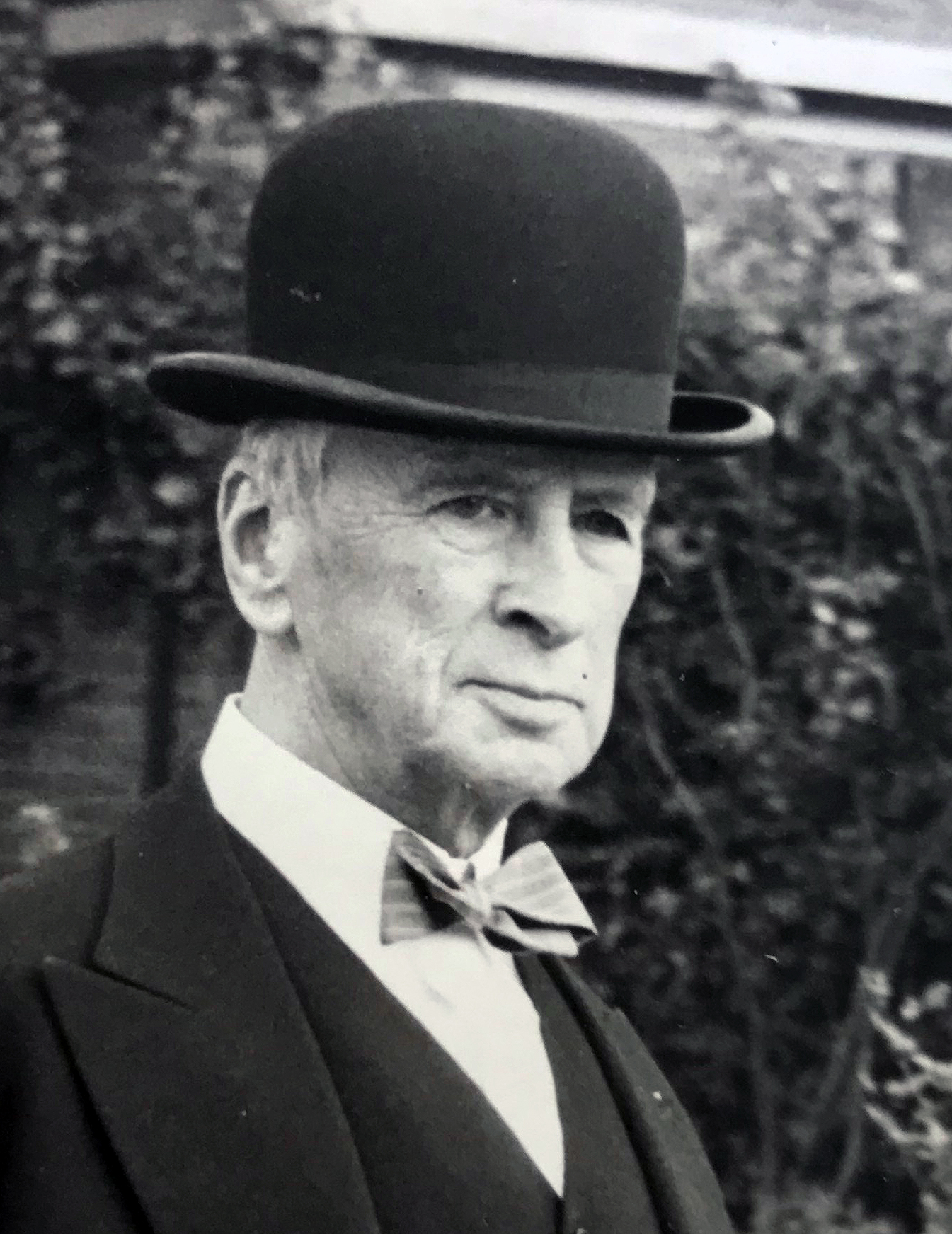 Dutch lawyer Antoni Willem Hartman (1878-1960)